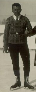 Stanko Bloudek cropped